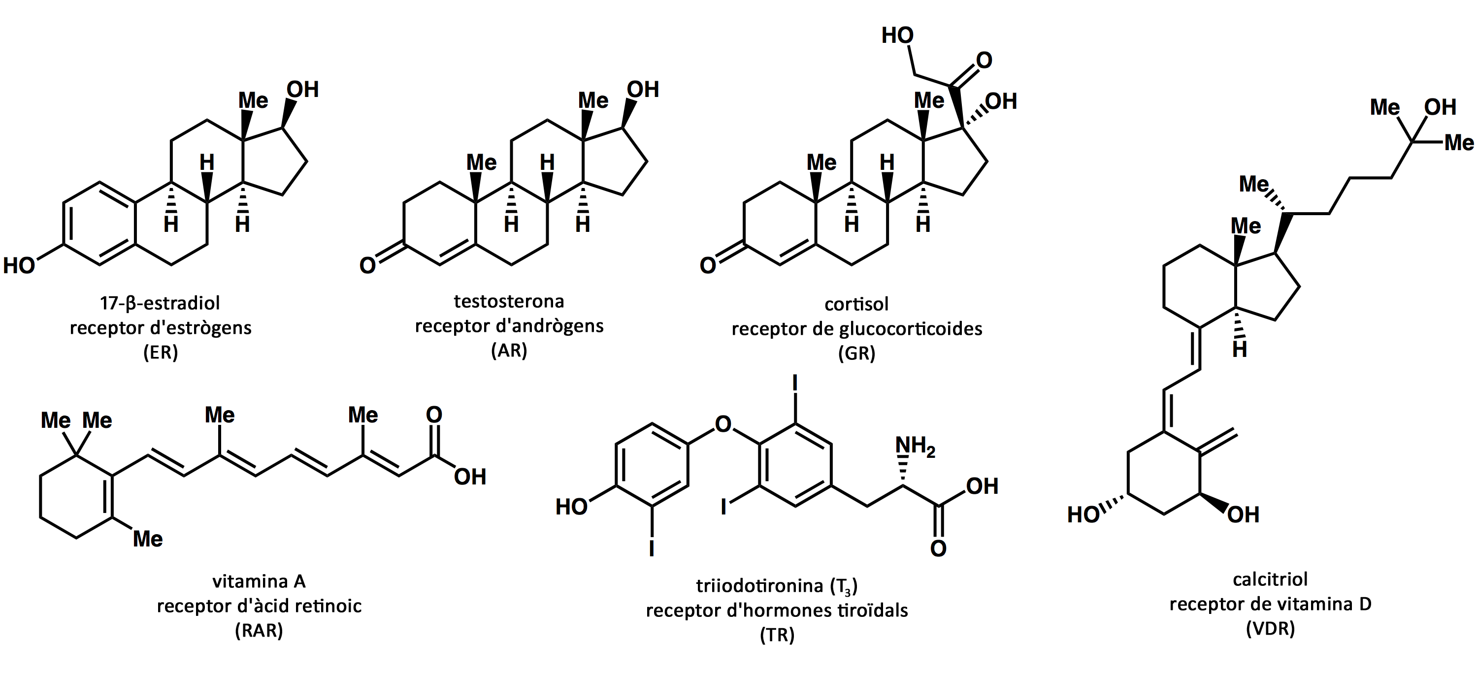 Structures of selected endogenous nuclear receptor ligands and the name of the receptor that each binds to (in Catalan). Created by User:Boghog2 using Cambridgesoft Chemdraw. Translated to Catalan by User:SergiC